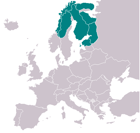 Approximate distribution of the Finno-Lappic languages, across Finland, Sápmi, Estonia, and Karelia.